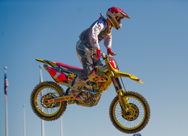 Supercross rider Chad Reed in action at AT&T Stadium in San Francisco